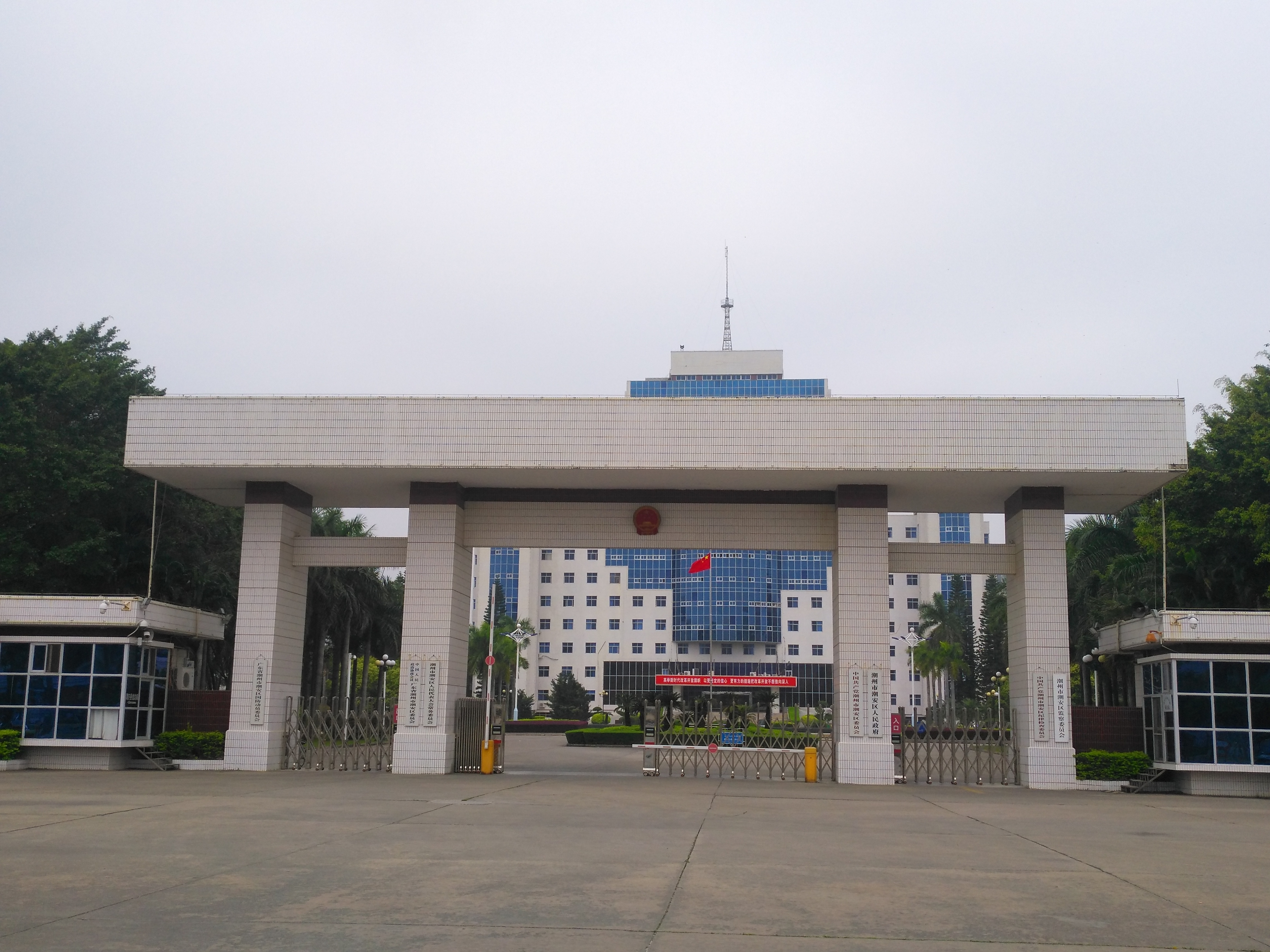 People's Government of Chaoan District, Chaozhou City.